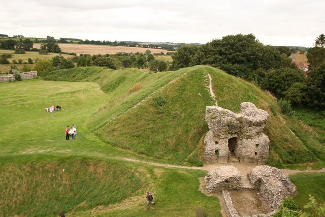 West Gate Ruins of the west gate that linked the castle to the medieval town